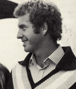 Klaus Dibiasi at his home in Italy in 1960s